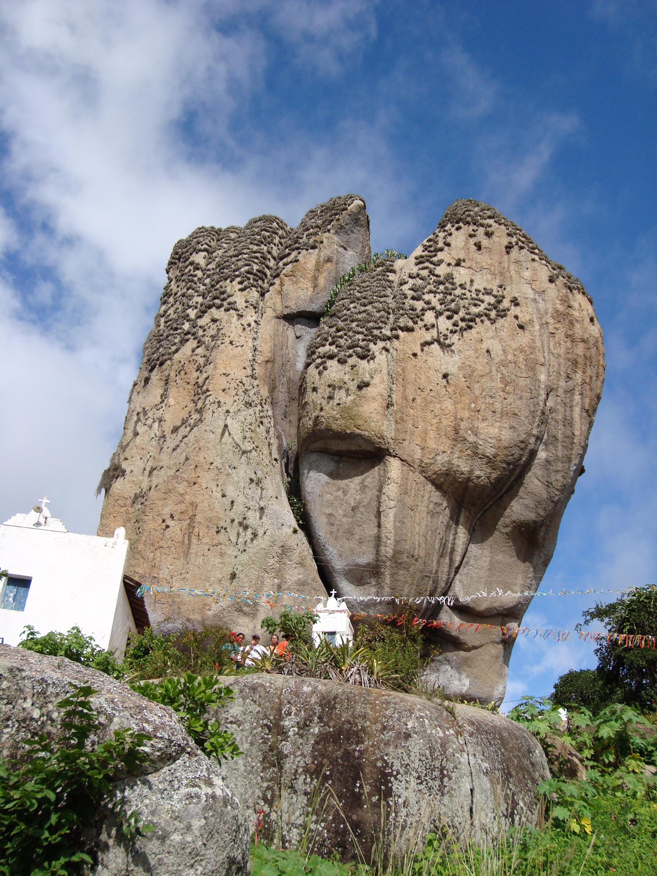 Pedra de Santo Antonio